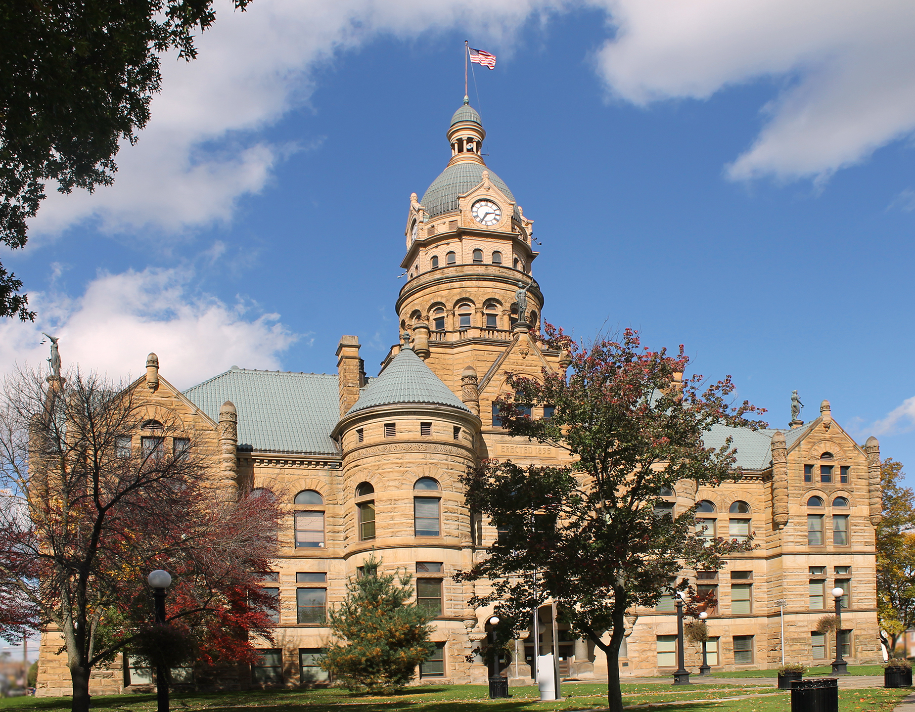 NRHP-listed Trumbull County Courthouse in Warren, Ohio.